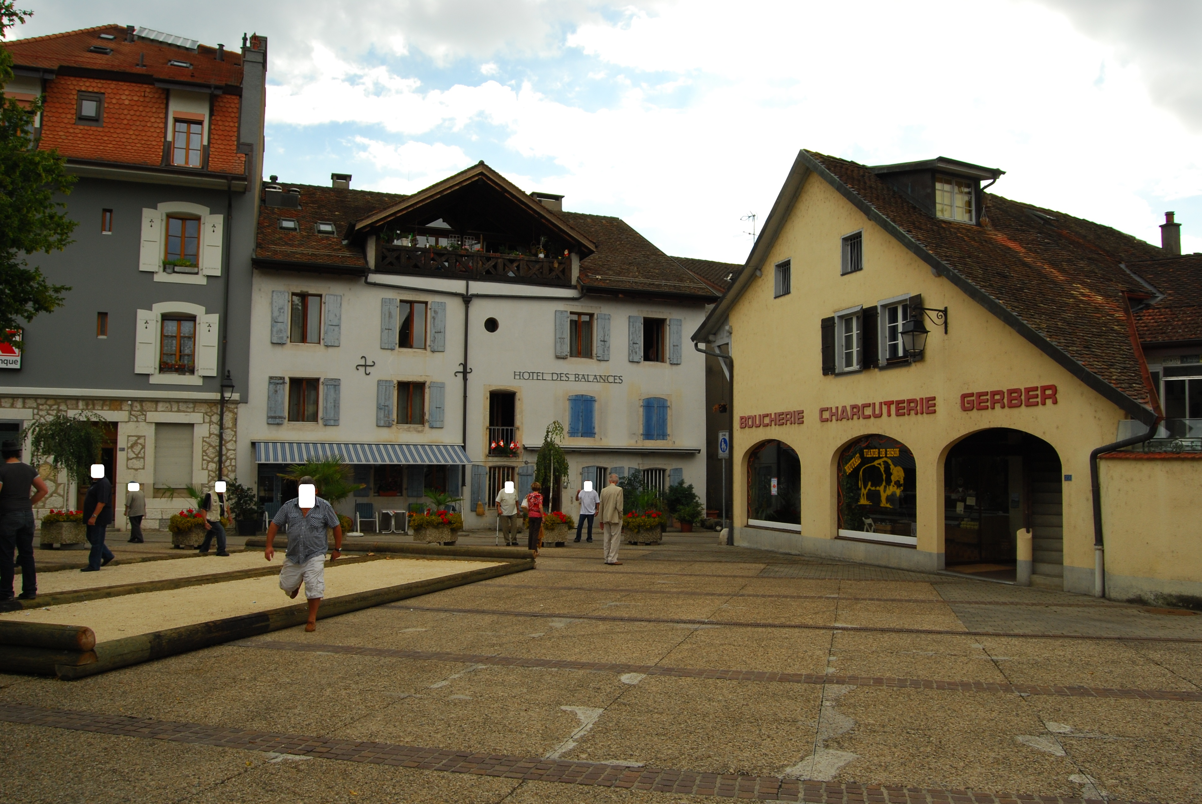 Versoix, canton of Geneva, SwitzerlandEsperanto: Versoix, Kantono Ĝenevo, Svislando